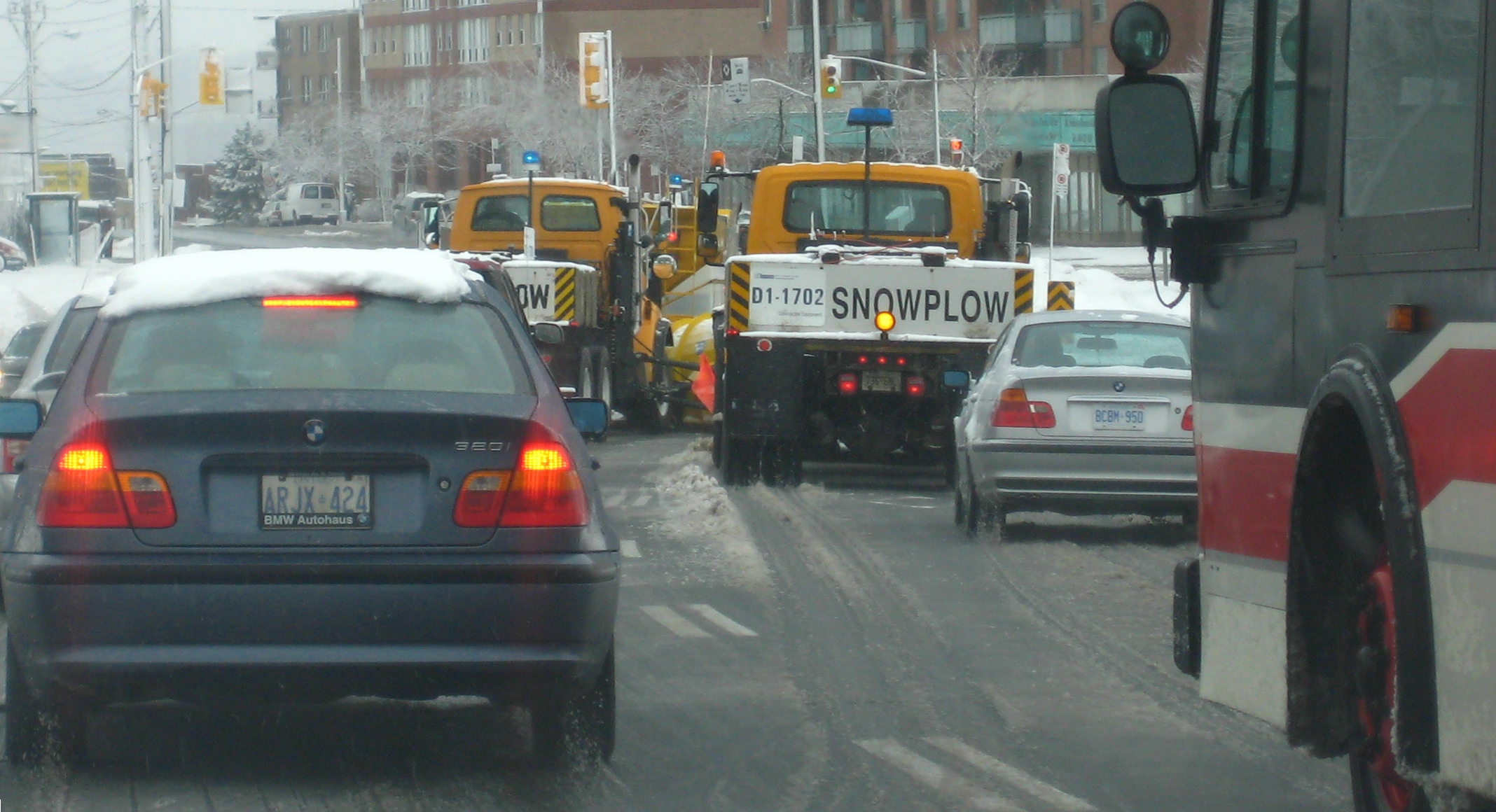 Snow plows clearing heavy wet snow along Eglinton Ave W. in central Toronto. The plows are heading westbound towards Keele street.